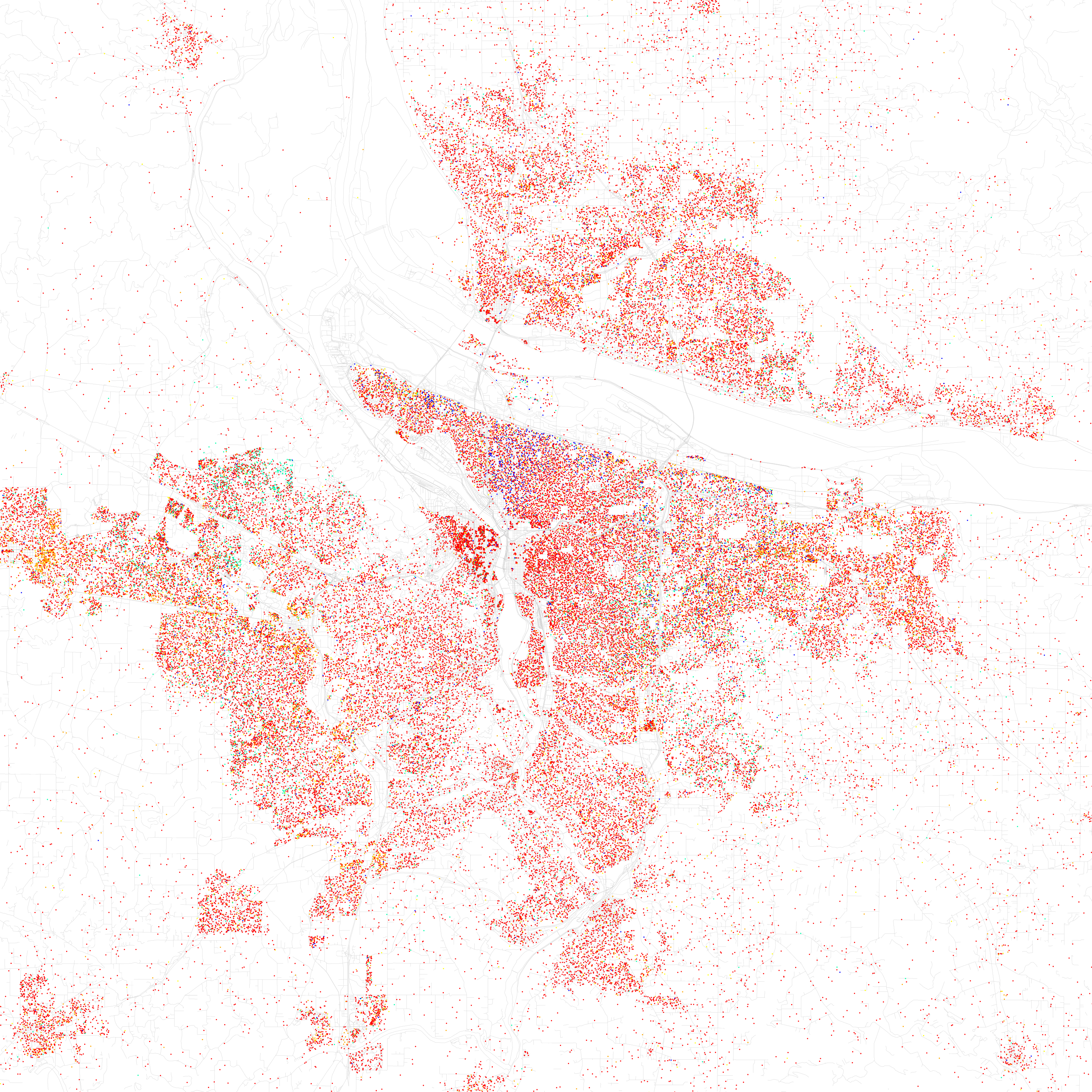 Maps of racial and ethnic divisions in US cities, inspired by Bill Rankin's map of Chicago, updated for Census 2010. Covers the Portland, Oregon metropolitan area. Red is White, Blue is Black, Green is Asian, Orange is Hispanic, Yellow is Other, and each dot is 25 residents. Data from Census 2010. Base map © OpenStreetMap, CC-BY-SA